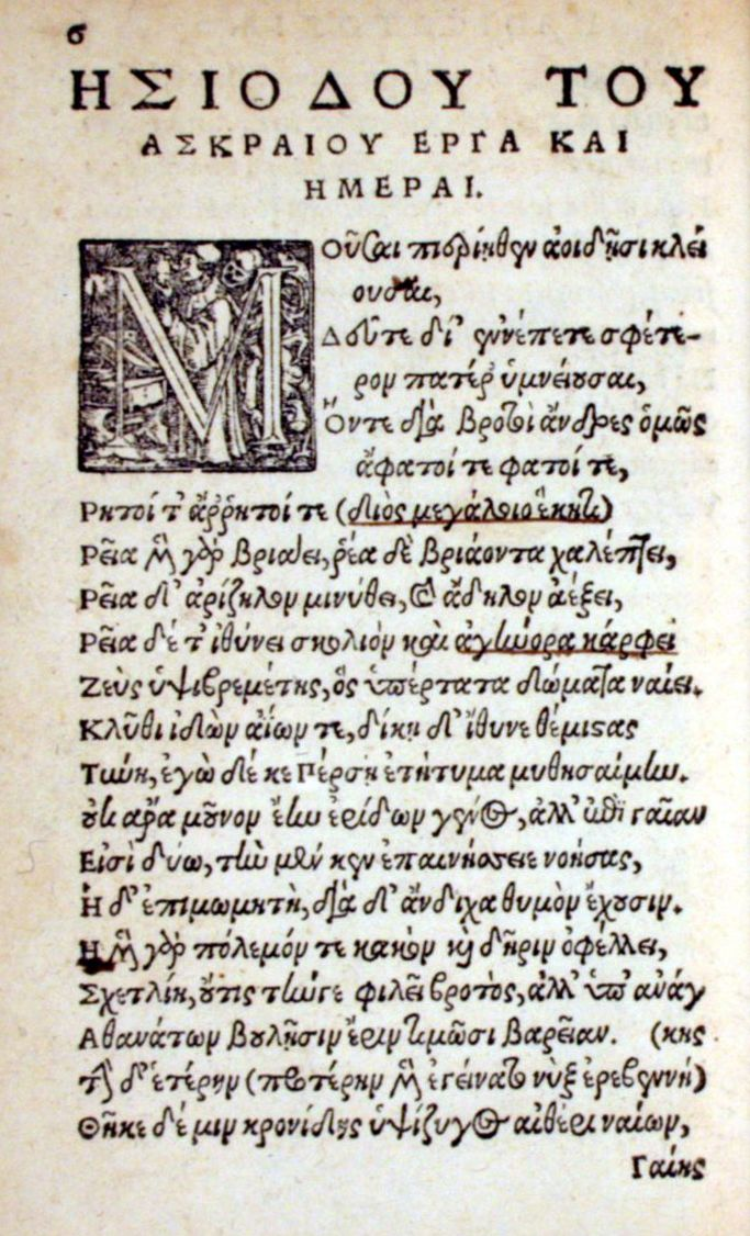 Initial page of Hesiod’s poem Works and Days, with the Greek original text on the left side, and a Latin translation on the right side. From the 1539 edition Hesiodi Ascraei opuscula inscripta ΕΡΓΑ ΚΑΙ ΗΜΕΡΑΙ, sic recens nunc Latinè reddita, ut uersus uersui respondeat, unà cum scholiis obscuriora aliquot loca illustrantibus. Ulpio Franekerensi Frisio autore, addita est antiqua Nicolai Vallae translatio, ut quis conferre queat. Basileae, Mich. Ising., 1539, p. 6–7.